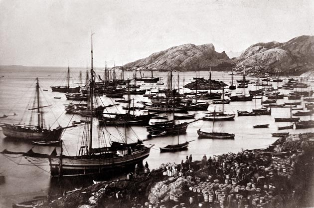 Herring fishing (Clupea harengus) in Bodø, Norway